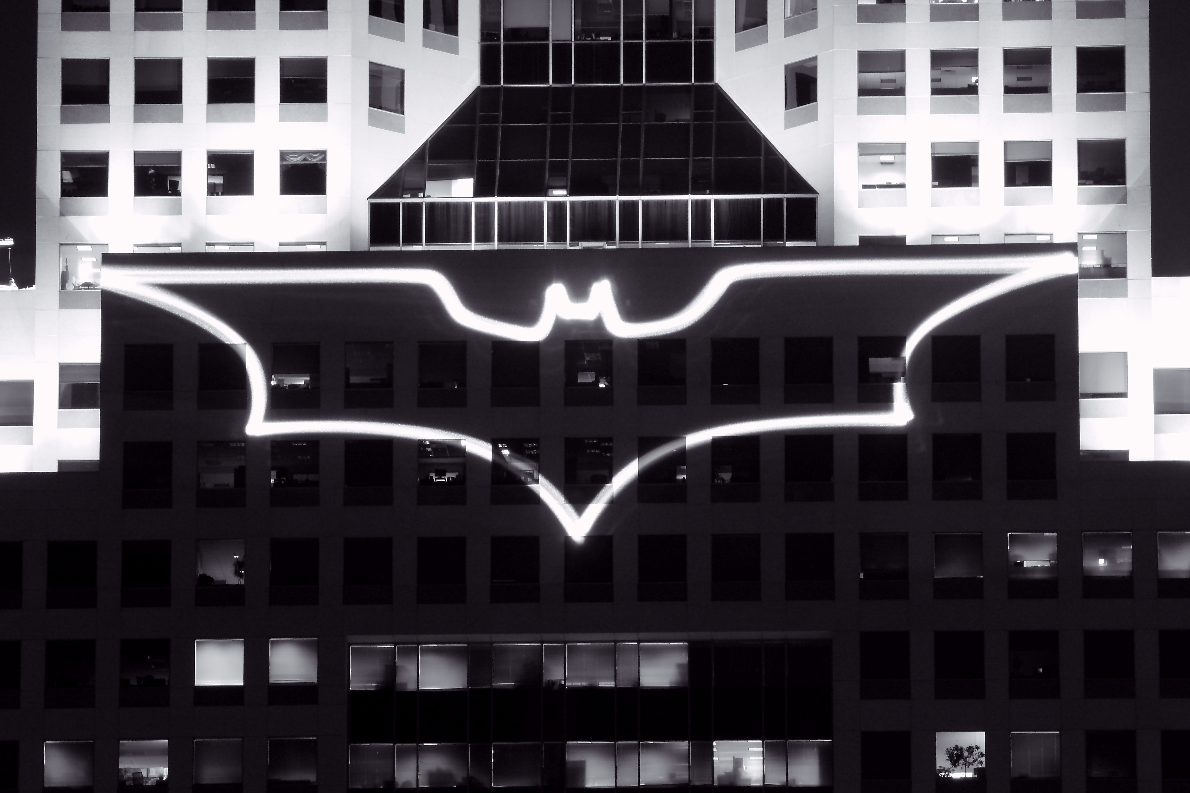 The Bat-Signal displayed on the Fifth Avenue Place in Pittsburgh during the filming of The Dark Knight Rises.